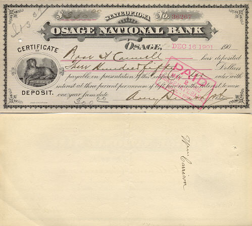 A certificate of deposit issued by a local bank in the State of Iowa in the United States of America.